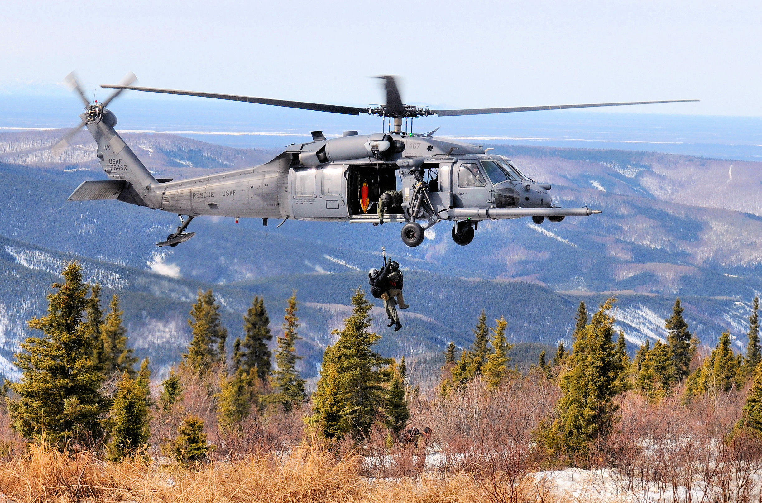 4/23/2009 - Airmen in a HH-60 Pavehawk from the 210th Rescue Squadron Detachment 1, rescue simulated downed pilots during Red-Flag Alaska 09-2 on April 22, 2009, Eielson Air Force Base, Alaska. RF-A provides realistic combat training which is essential to the success of air and space operations. (U.S. Air Force photo/Airman 1st Class Willard E. Grande II)